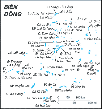 Spratly Islands in Vietnamese